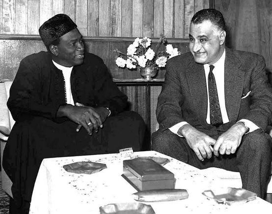 President of Mali Modiba Keita (left) and President of Egypt Gamal Abdel Nasser (right) in Addis Ababa for an African Summit conference